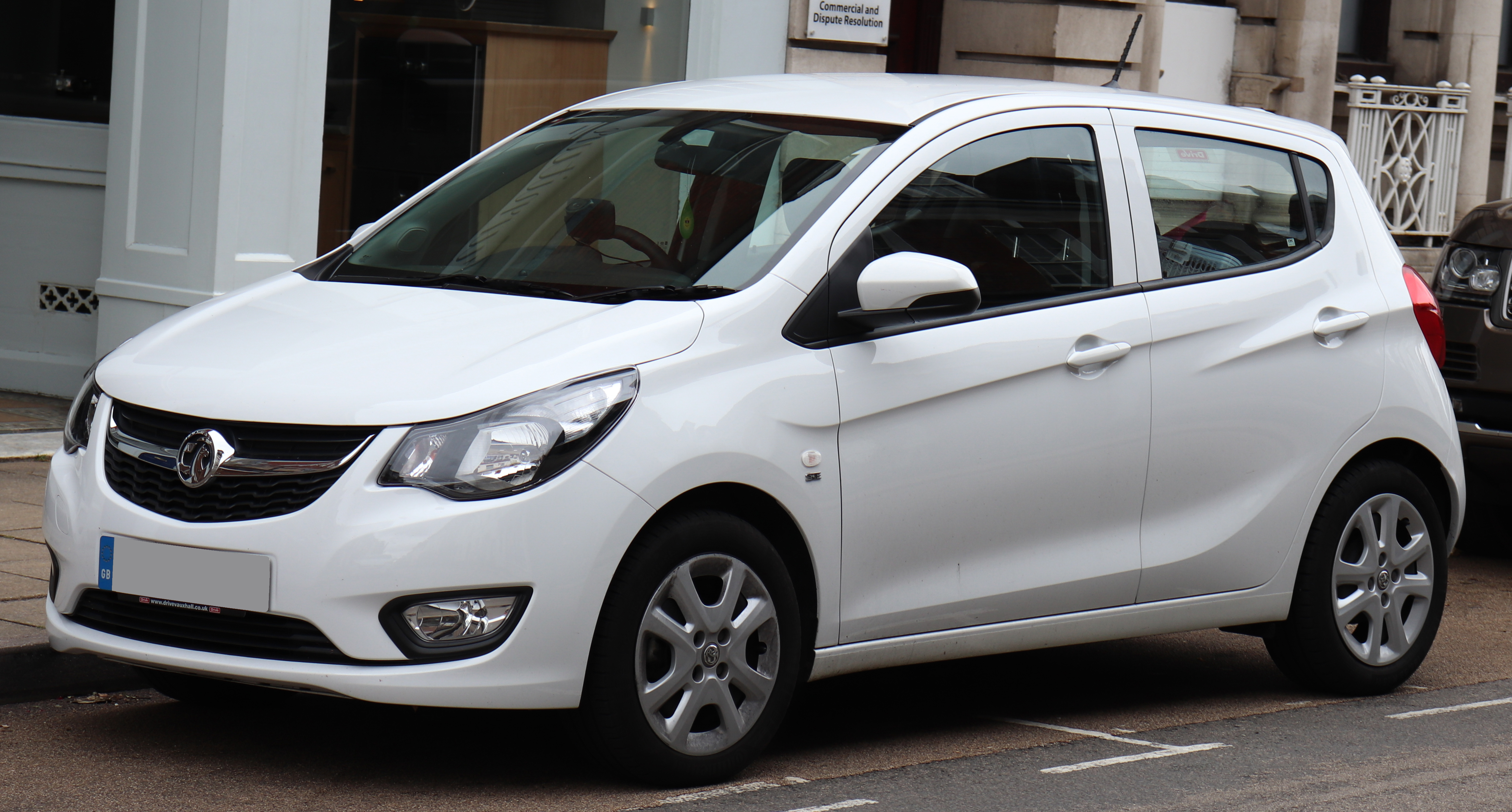 2016 Vauxhall Viva SE AC 1.0 Front Taken in Warwick